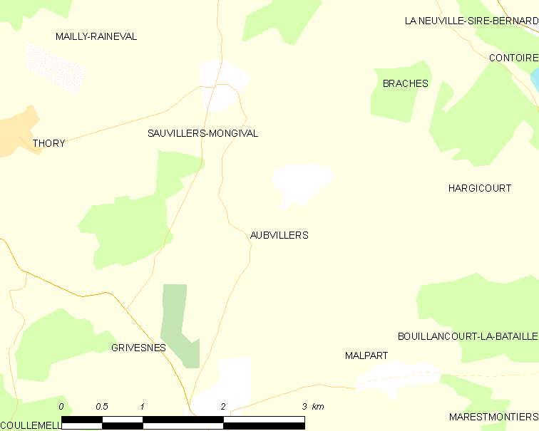 Map of French municipality Aubvillers